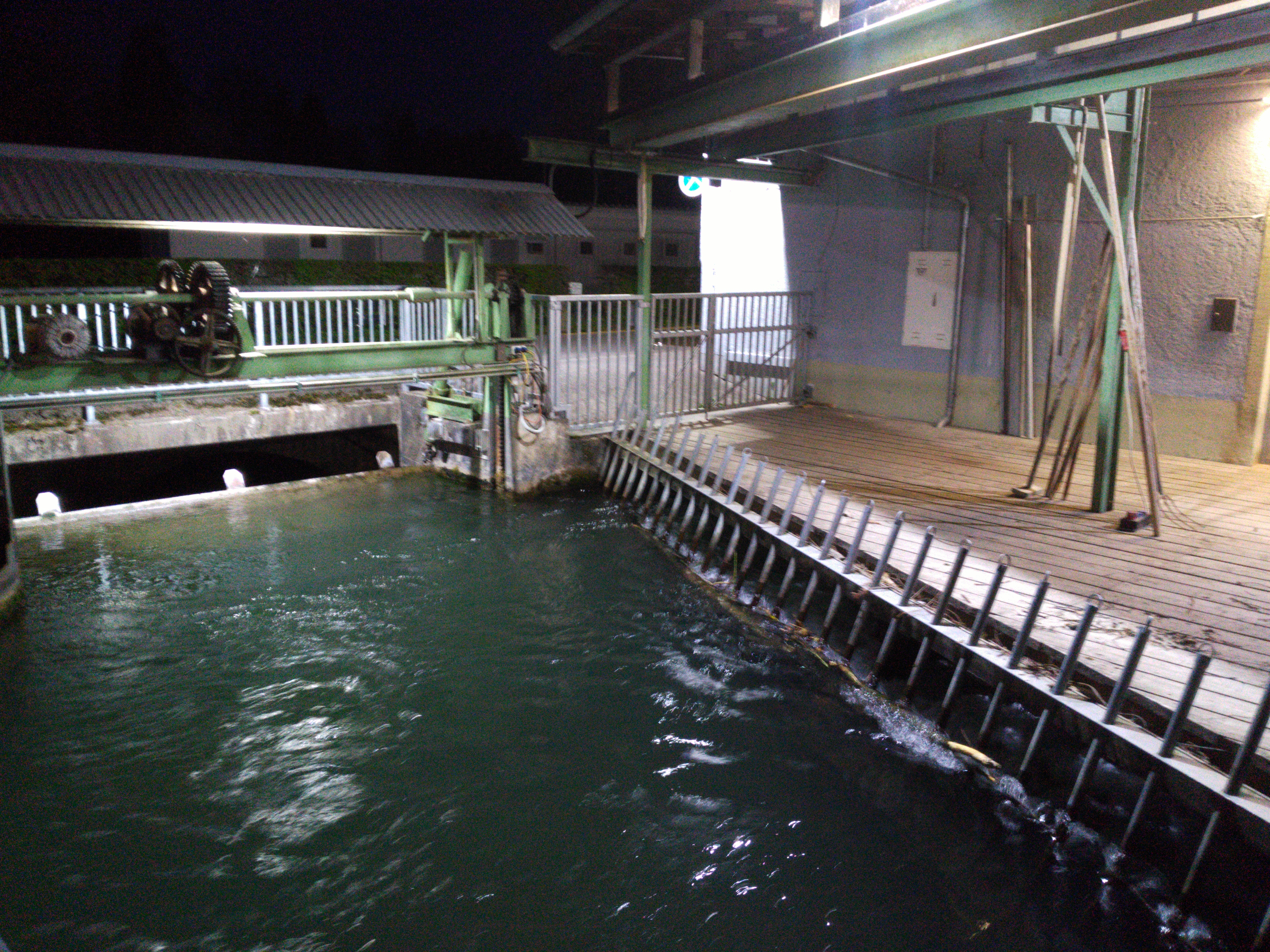 Schindlerkraftwerk in Kennelbach